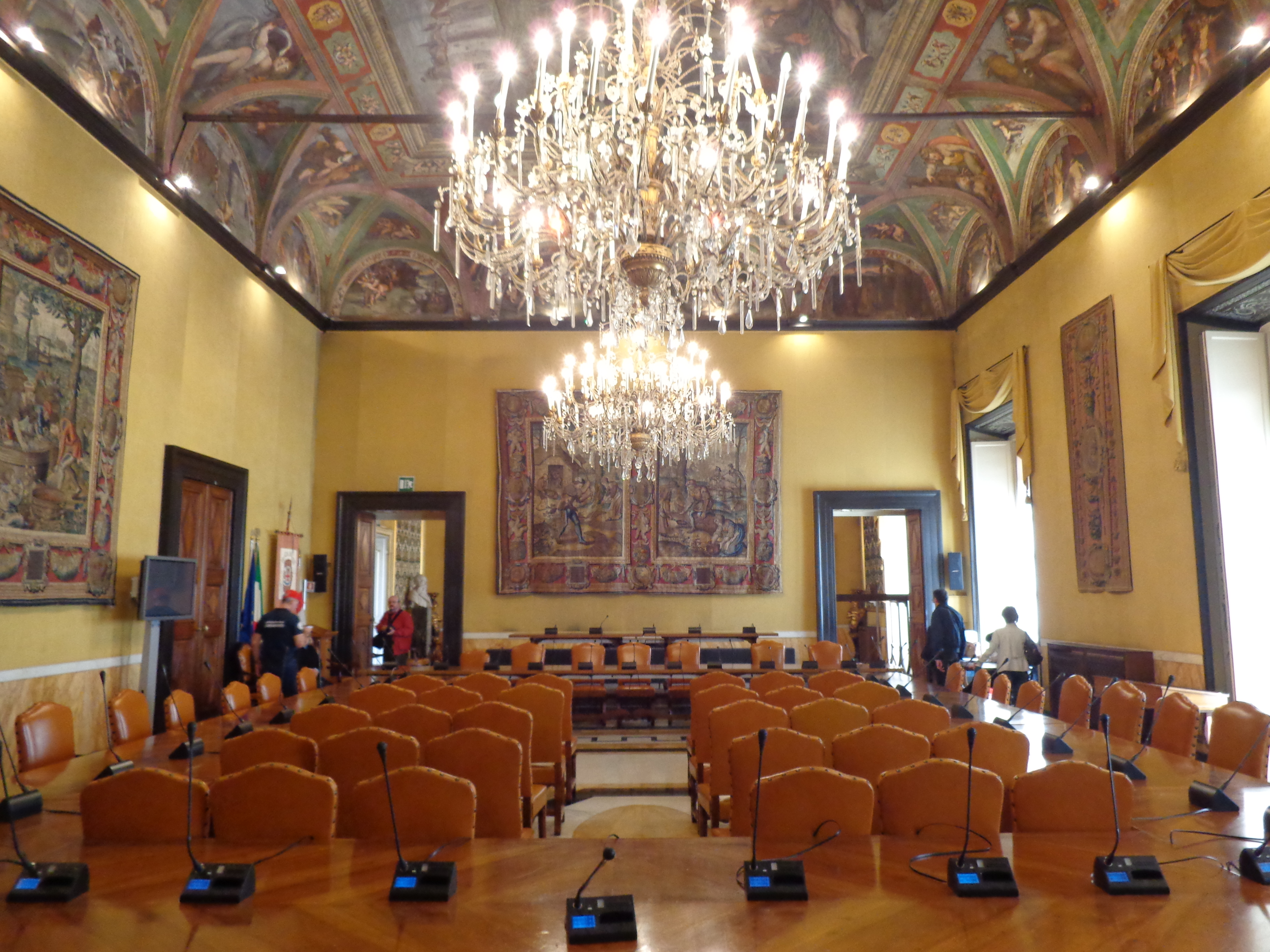 Palazzo Doria Spinola, Genoa